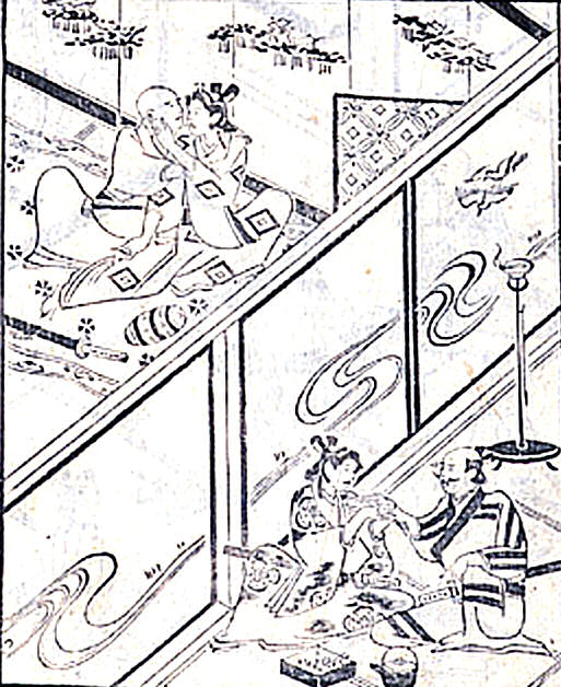 Depiction of a Shudo relationship, from 衆道物語 (Tale of Shudo), 1661 (Japan)